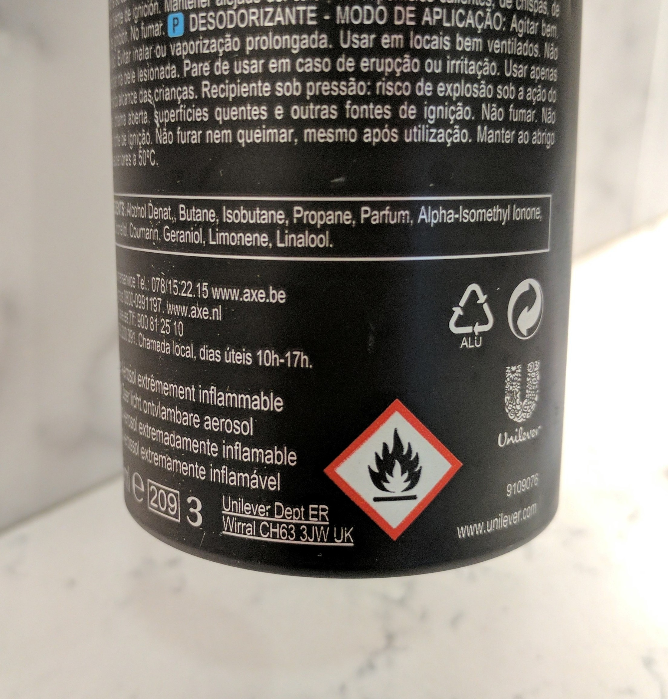 A picture of the rear side of a European edition of Axe deodorant containing a GHS flame pictogram.